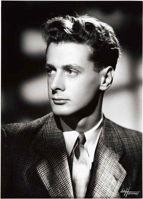 Studio photo